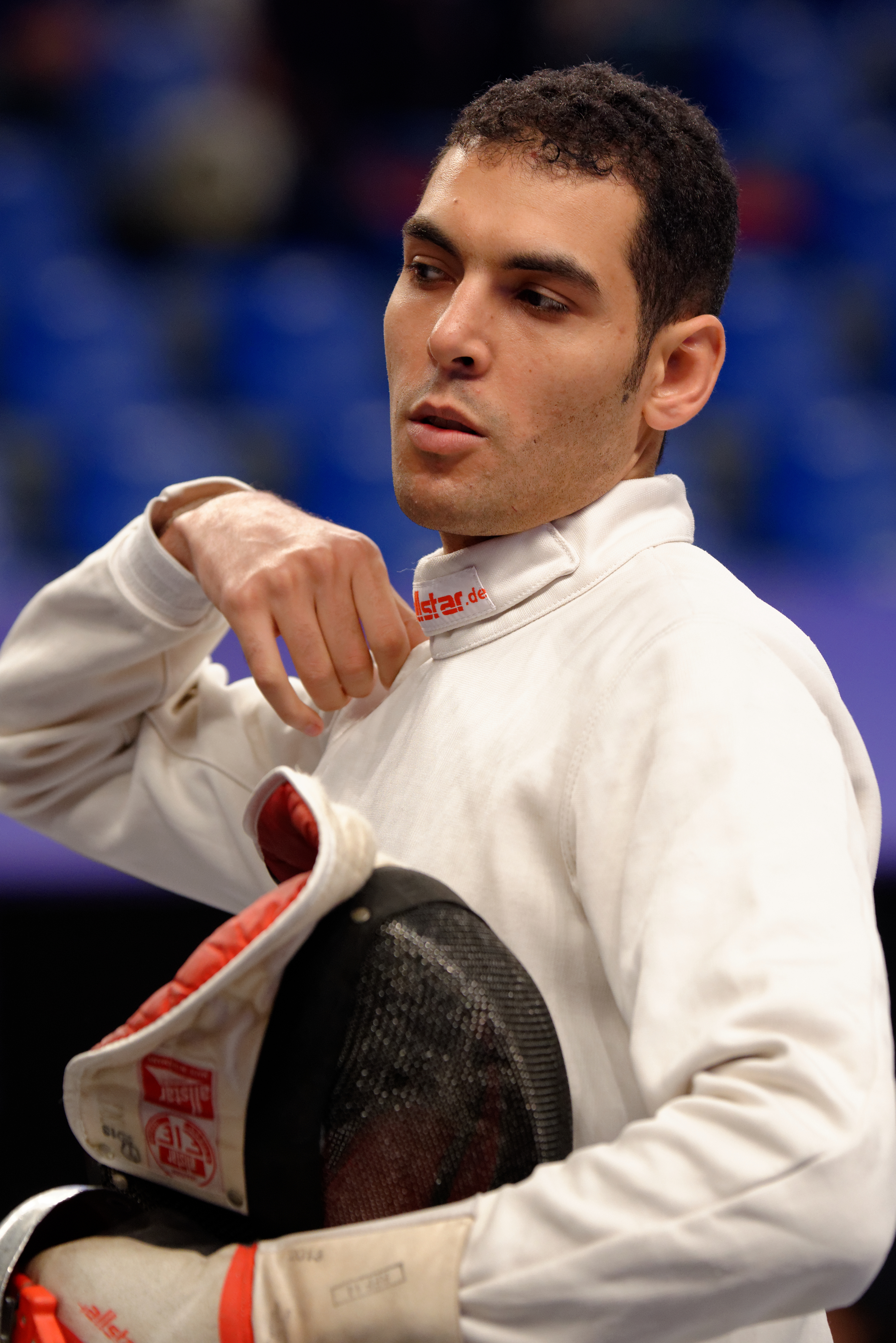 Egypt's Ahmed Nabil in the pools stage at the 2014 Challenge RFF-Trophée Monal, a men's épée World Cup event, on 2 May 2014.